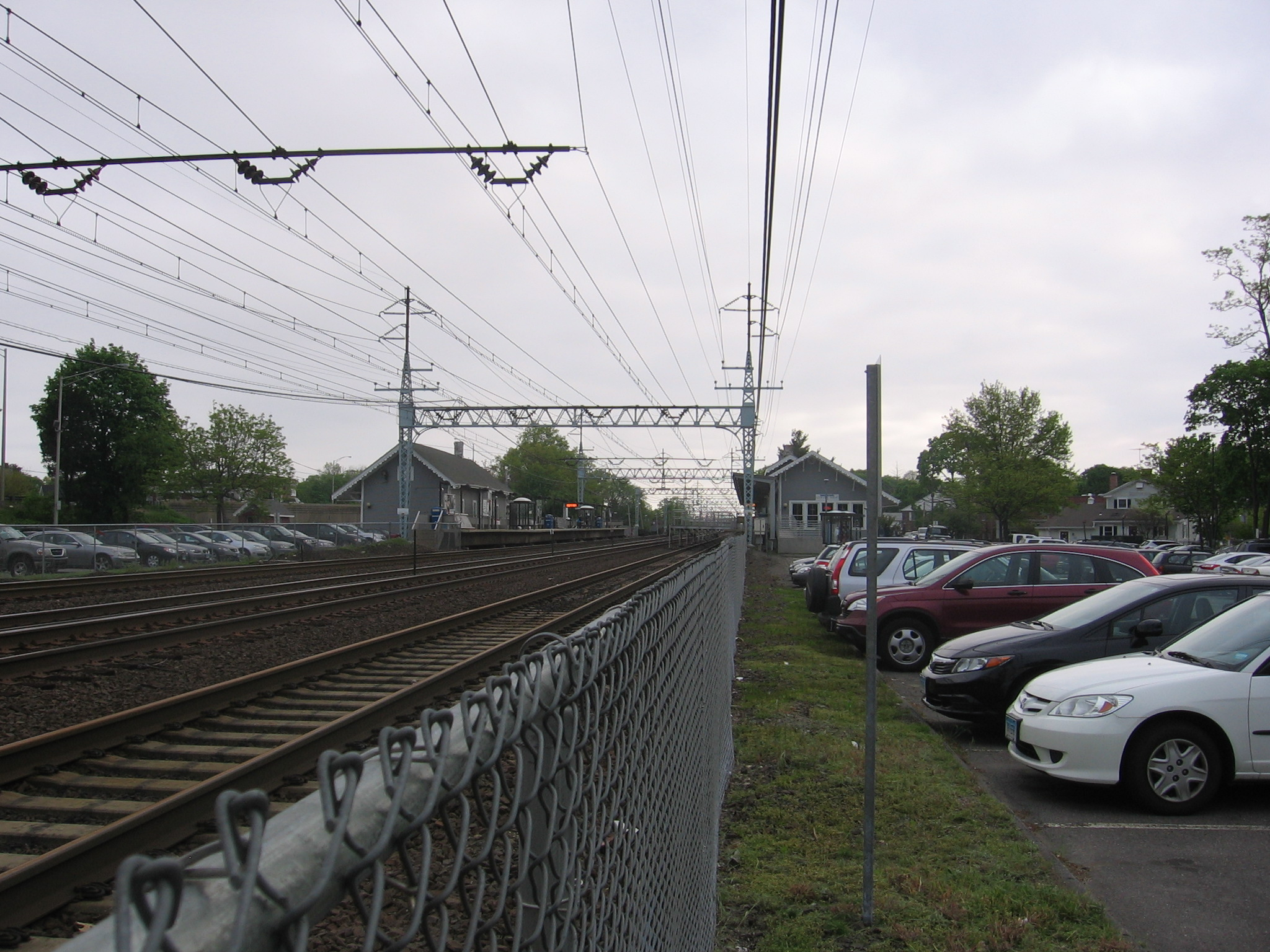 The Stratford station buildings seen from the east looking west (towards Bridgeport). The station house on the left (New Haven bound side) houses the National Helicopter Museum.